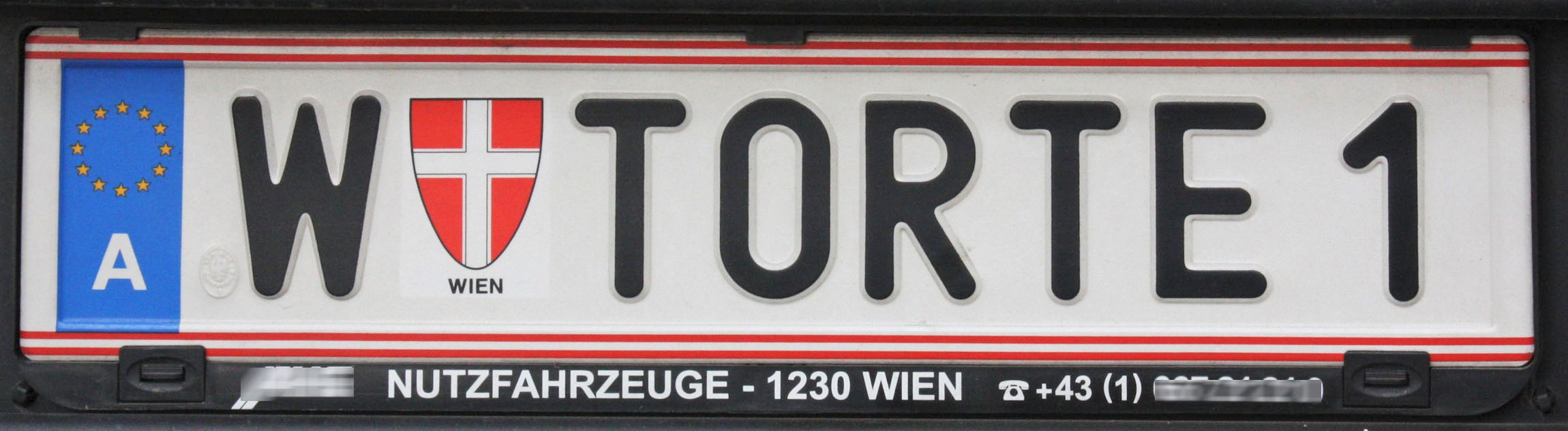 Registration plate from Vienna - capital of Austria as seen next to famous Hotel Sacher.